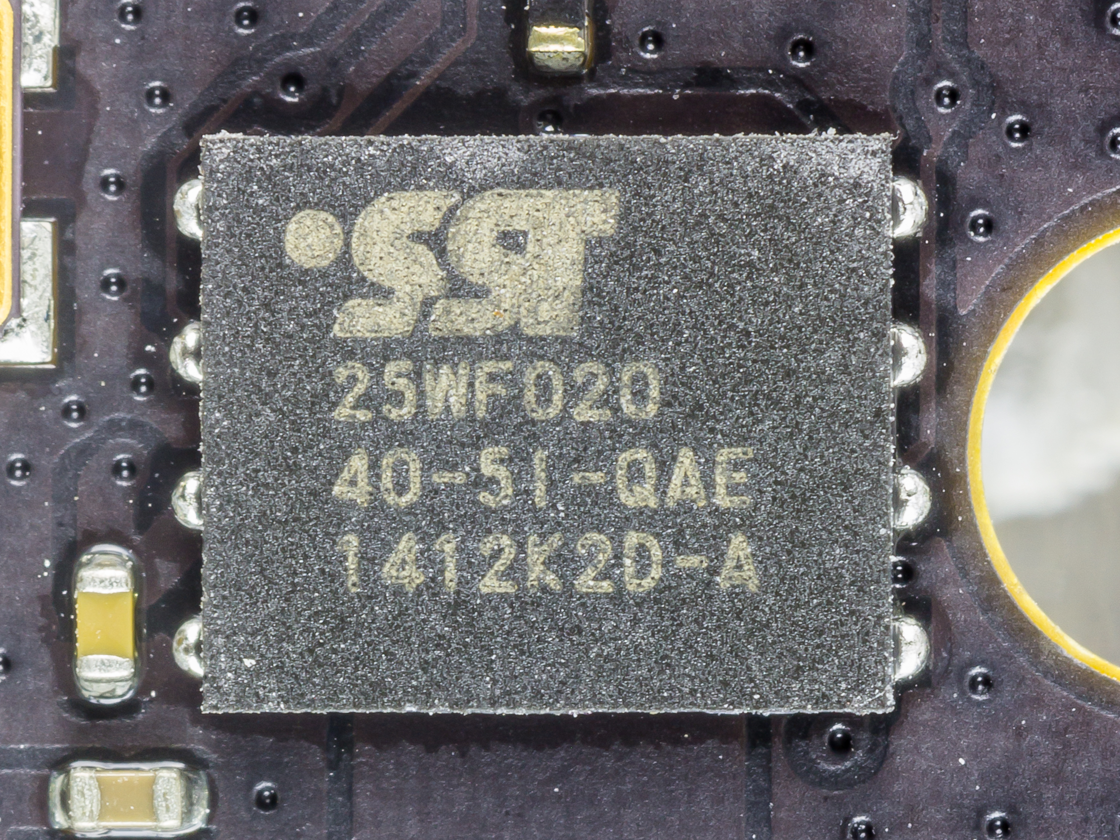 Apple Magic Trackpad - Silicon Storage Technology SST 25WF020-40-5I-QAE - SuperFlash Memory